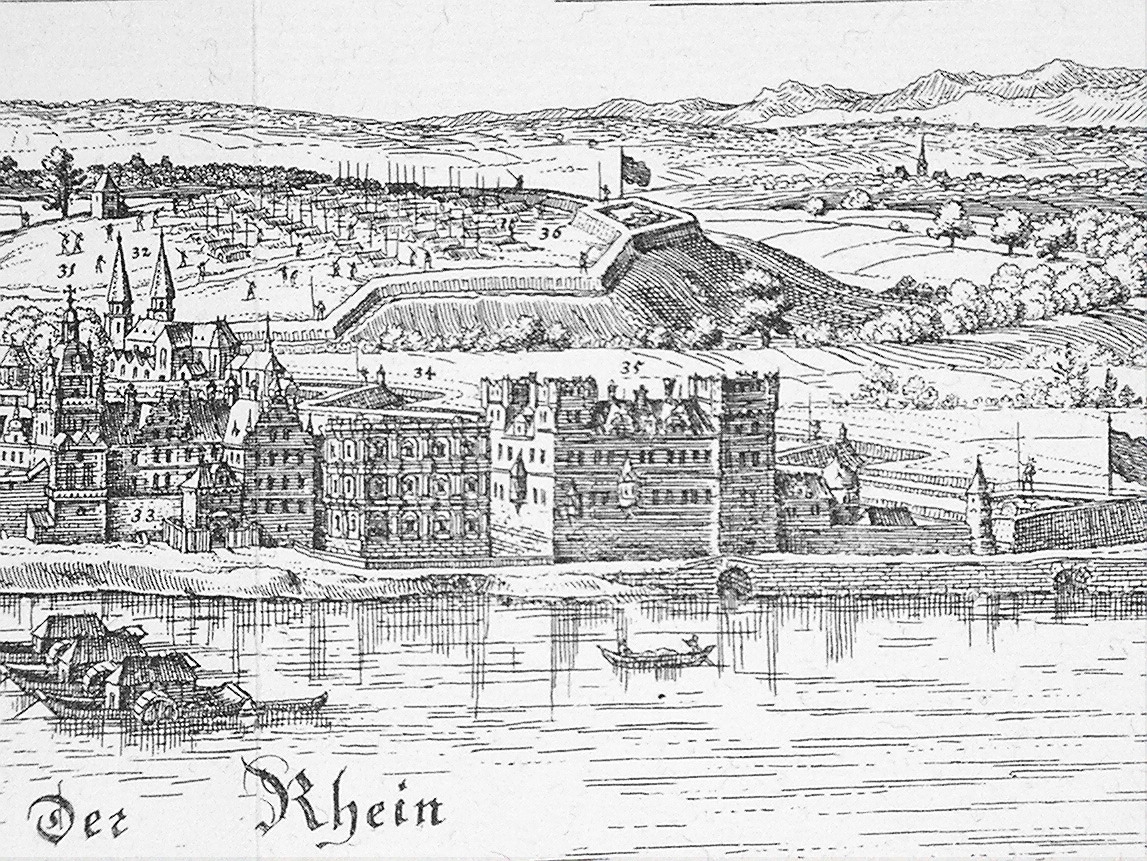 The Martinsburg, former residence of the archbishop, with the later residence behind (1633)